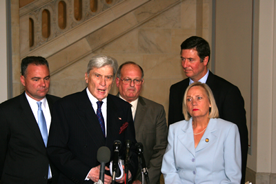 Senator John Warner speaks to reporters with Governor Tim Kaine, members of the Virginia delegation, and Deputy Inspector General Thomas Gimble after a briefing on the Inspector General’s decision on the Oceana Naval Air Station, May 24, 2006.